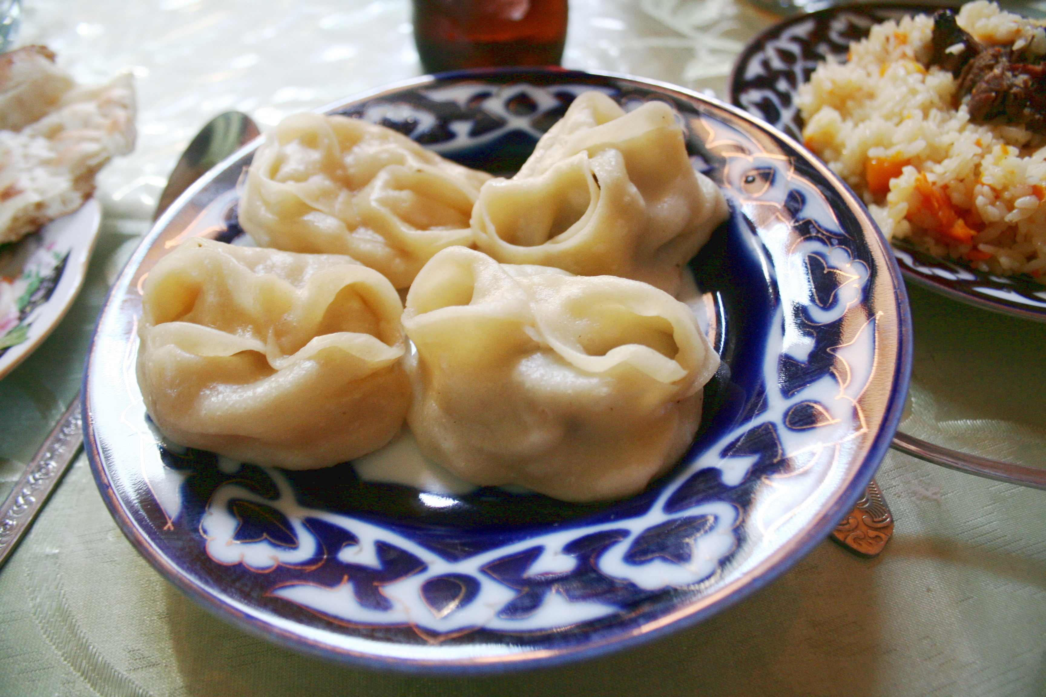 Manti: 2 filled with lamb and 2 with pumpkin. Itchan Kala, Khiva, Khorezm region, Uzbekistan.